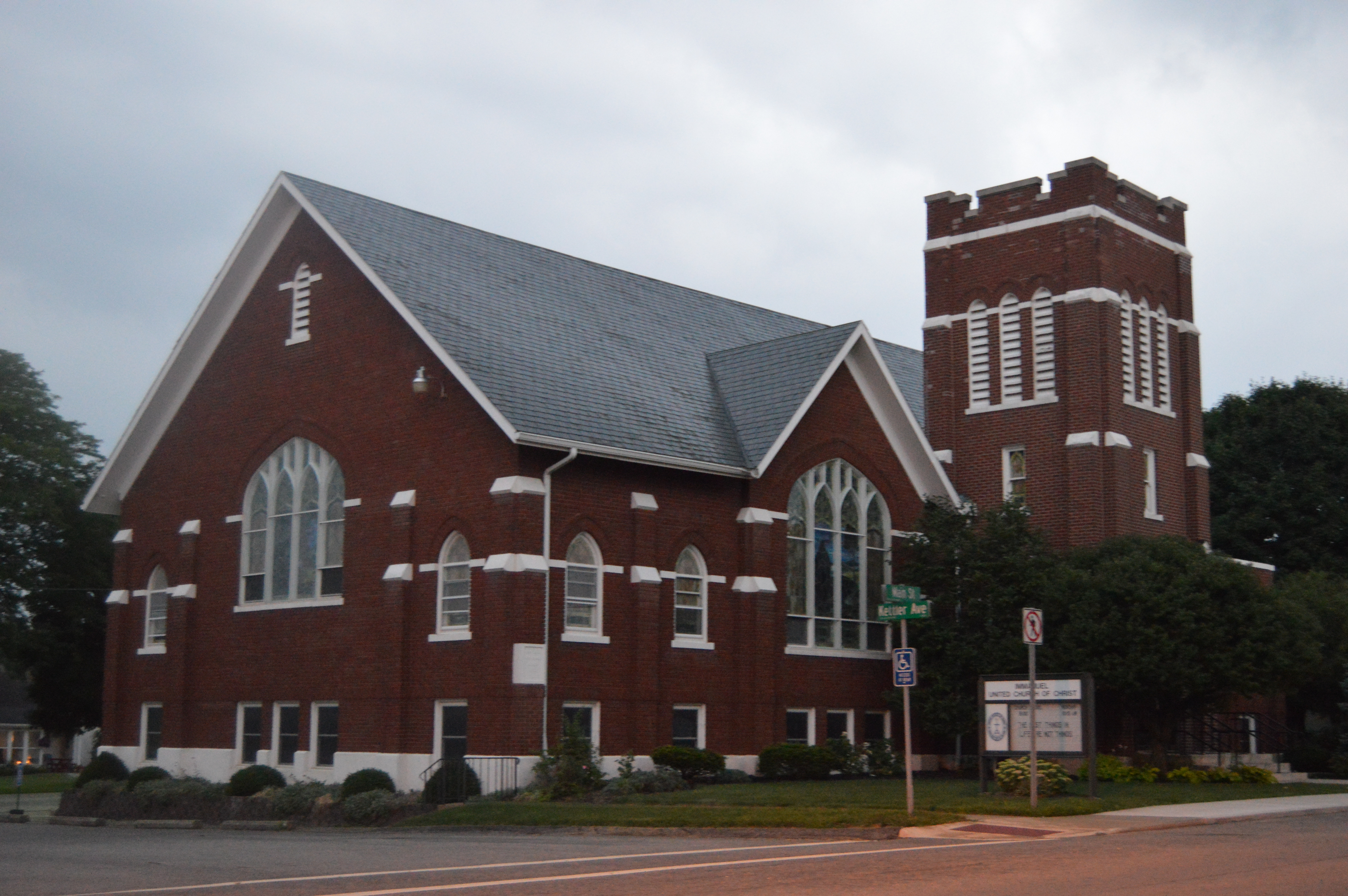 Eastern end and front of Immanuel United Church of Christ, located at 8889 State Route 274 in Kettlersville, Ohio, United States. It was built in 1926.